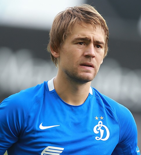 Kirill Panchenko with FC Dynamo Moscow in a game against FC Neftekhimik Nizhnekamsk.